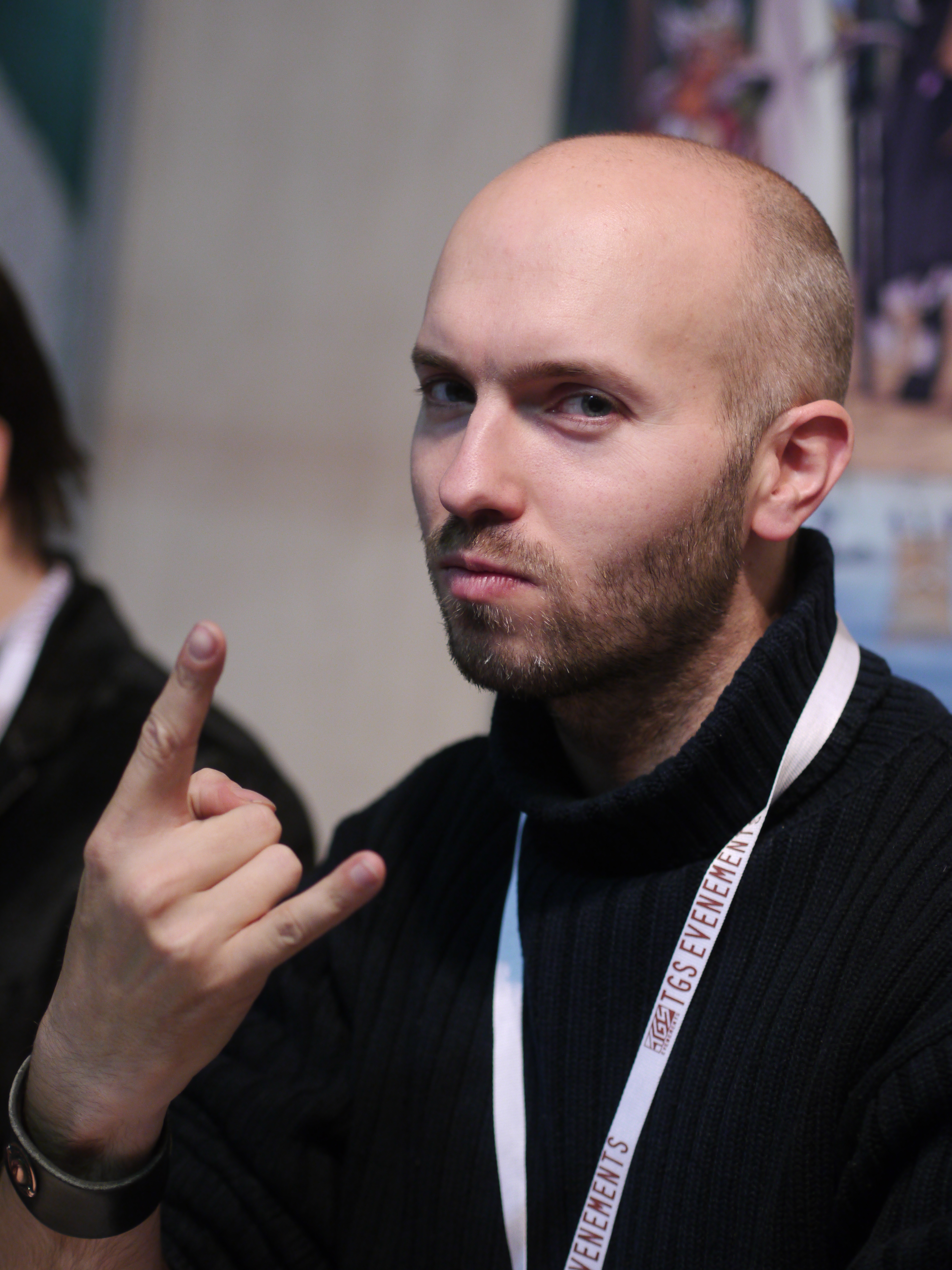 Toulouse Game Show Festival, 6th edition.